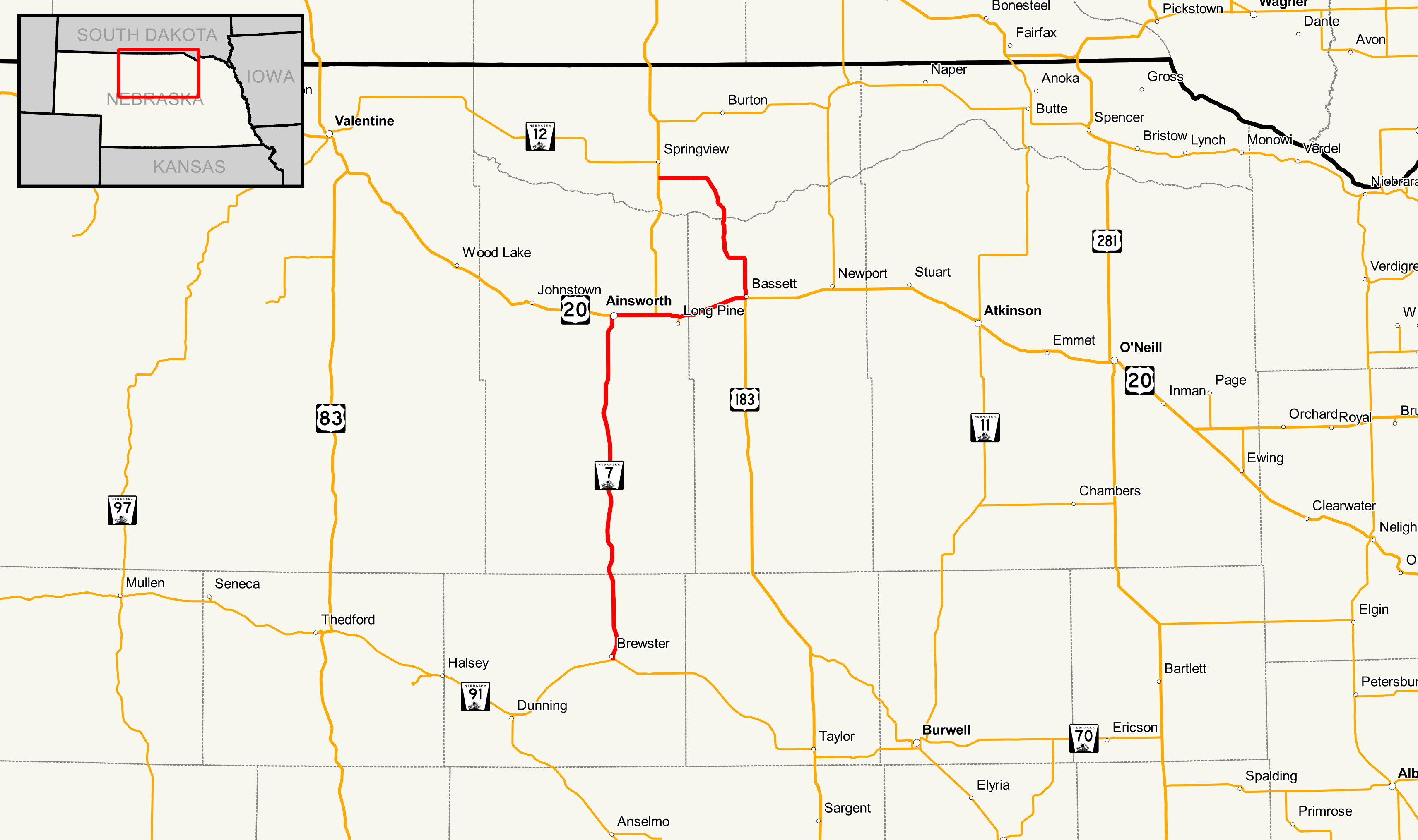 Map of Nebraska Highway 7 Data Sources: Nebraska Highways - - Dec 2016 Nebraska County Boundaries - - Dec 2016 Nebraska City Boundaries - - Dec 2016 This PNG graphic was created with QGIS